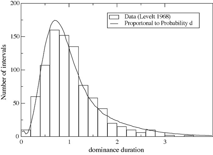 Comparison with the data from Levelt using Tb = 0.5, ıT = 0.1, and T = 3. Time in reference Levelt (1968) and in this figure is in units of the mean dominance duration. The time scale T is the period characterizing the evolution of the state of potential consciousness.